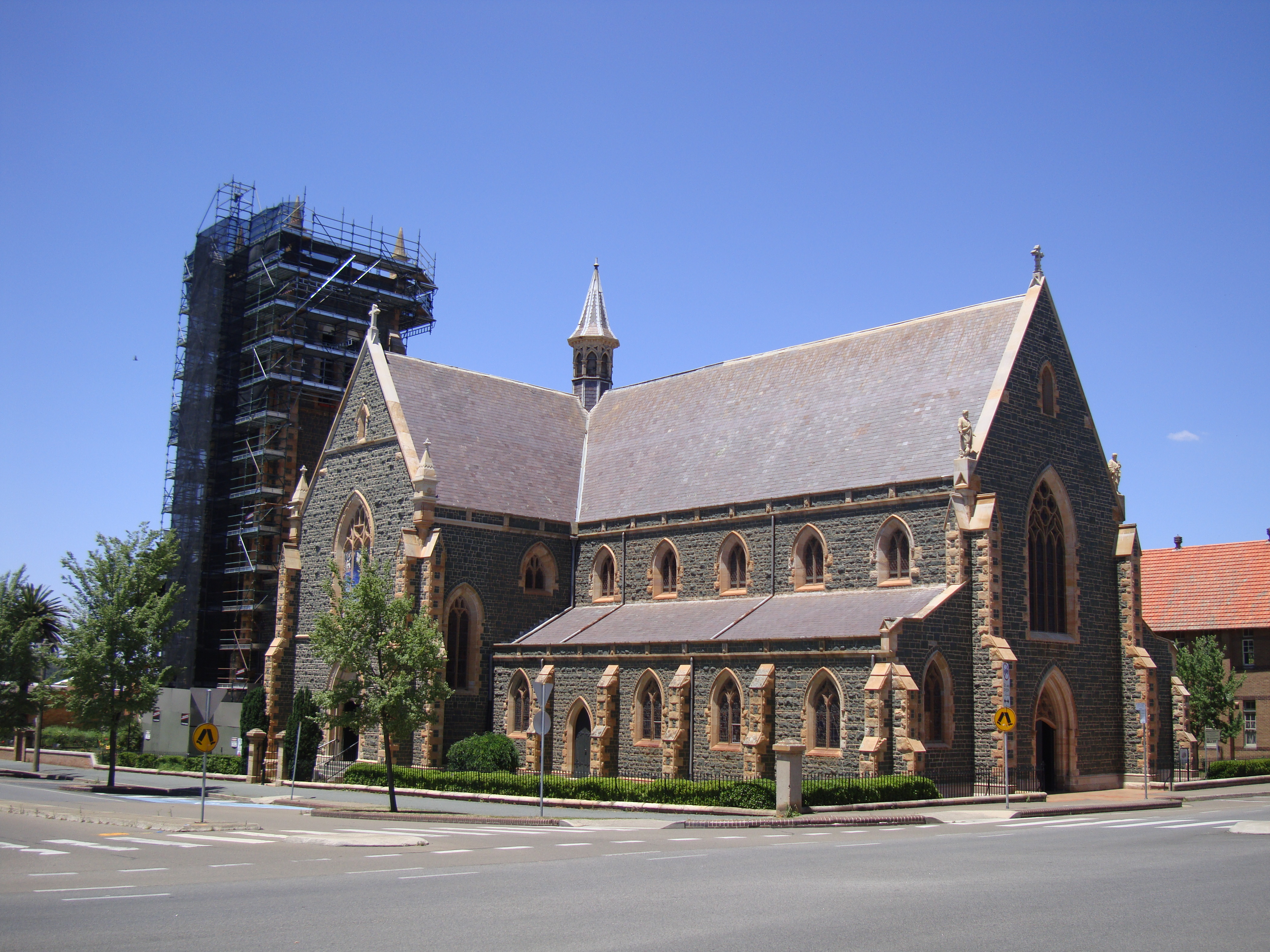 Photograph of SS Peter & Paul Old Cathedral, Goulburn, New South Wales, Australia